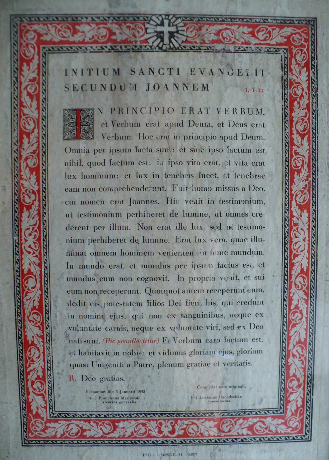 Altar card